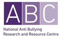 The official corporate logo for the National Anti-Bullying Research and Resource Centre Dublin City University designed in 2014 by Marie Leahy.